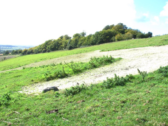 Straight from the horse's mouth. Roundway hill and the Devizes Millennium white horse